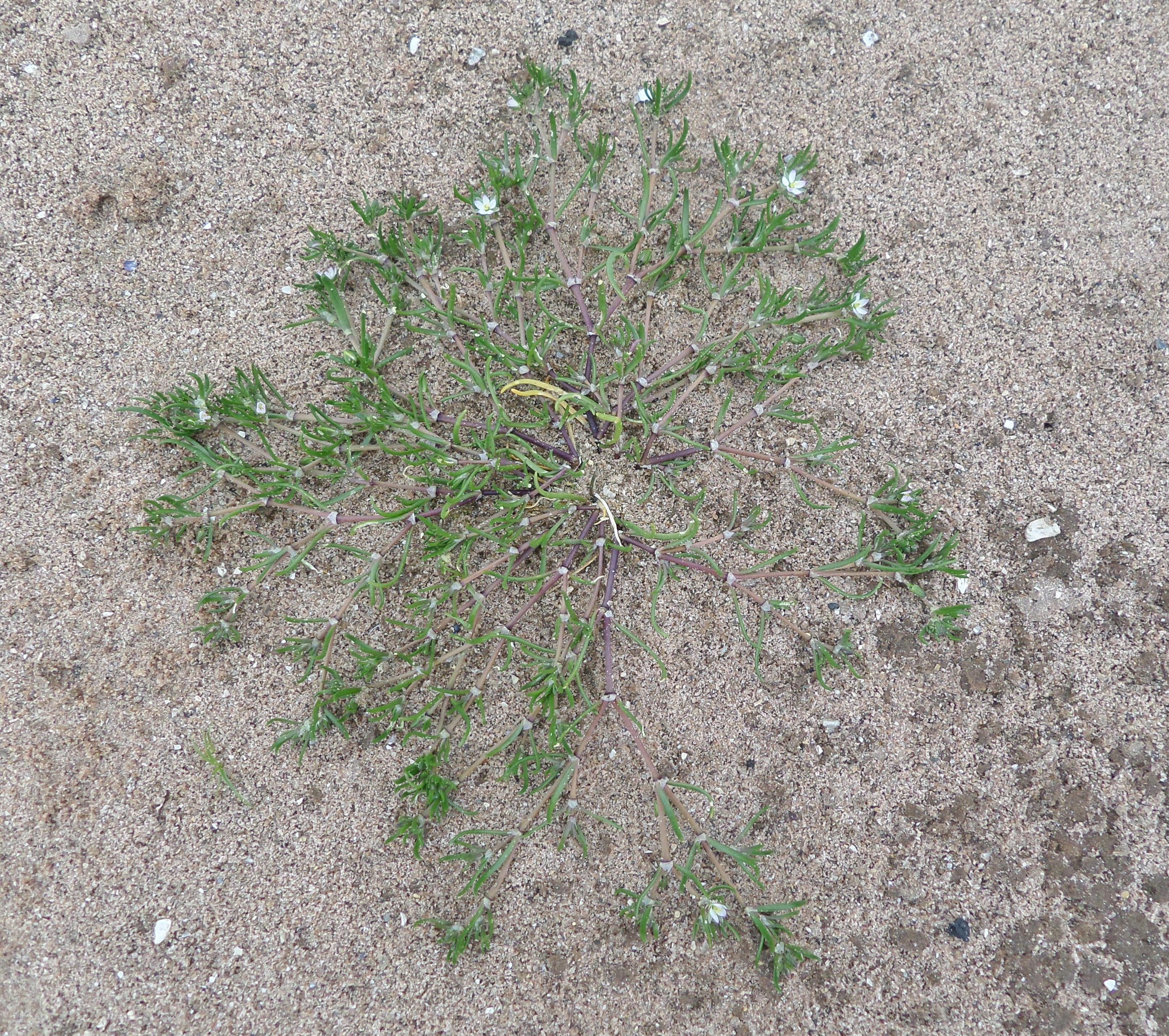 The lesser Sea Spurrey (Spergularia marina) on open sand at Portencross, West Kilbride, North Ayrshire, Scotland.